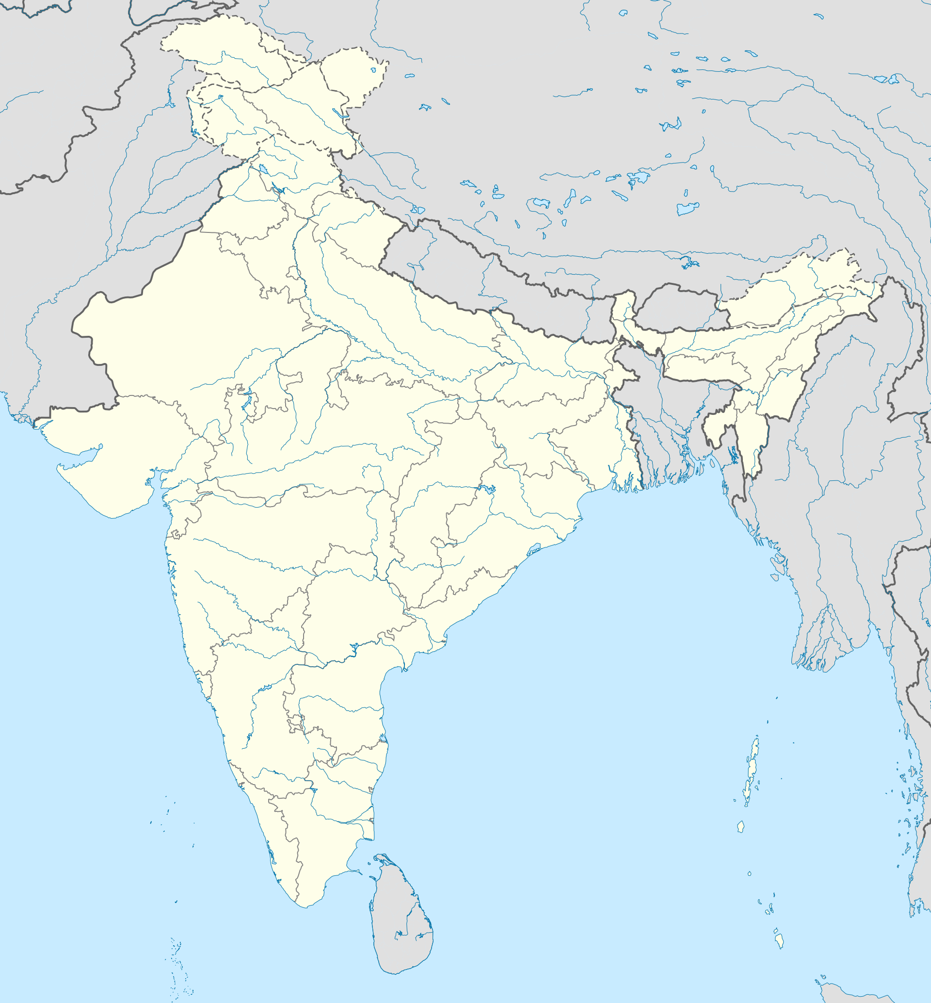 A derivative work of the following image: File:India_location_map.svg which includes the disputed land of Kashmir as part of India. Equirectangular projection. Geographic limits of the map: top=37.5, bottom=5.0, left=67.0, right=99.0.